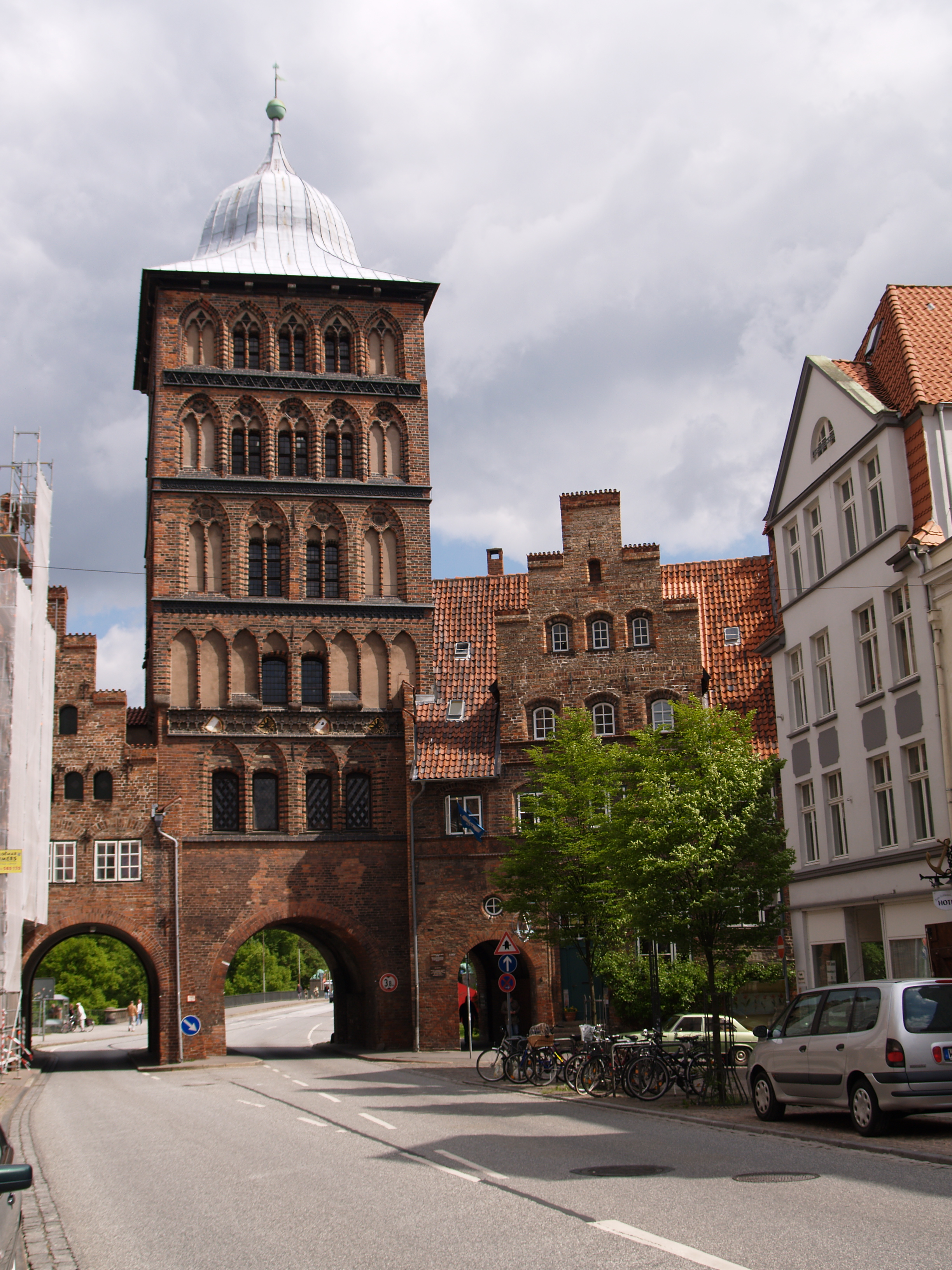 Burgtor, the northern gate of the ancient town of Luebeck, Germany, south aspect. Between the brick customs house and the white house to the right is the corner of große Burgstraße with Kaiserstraße.